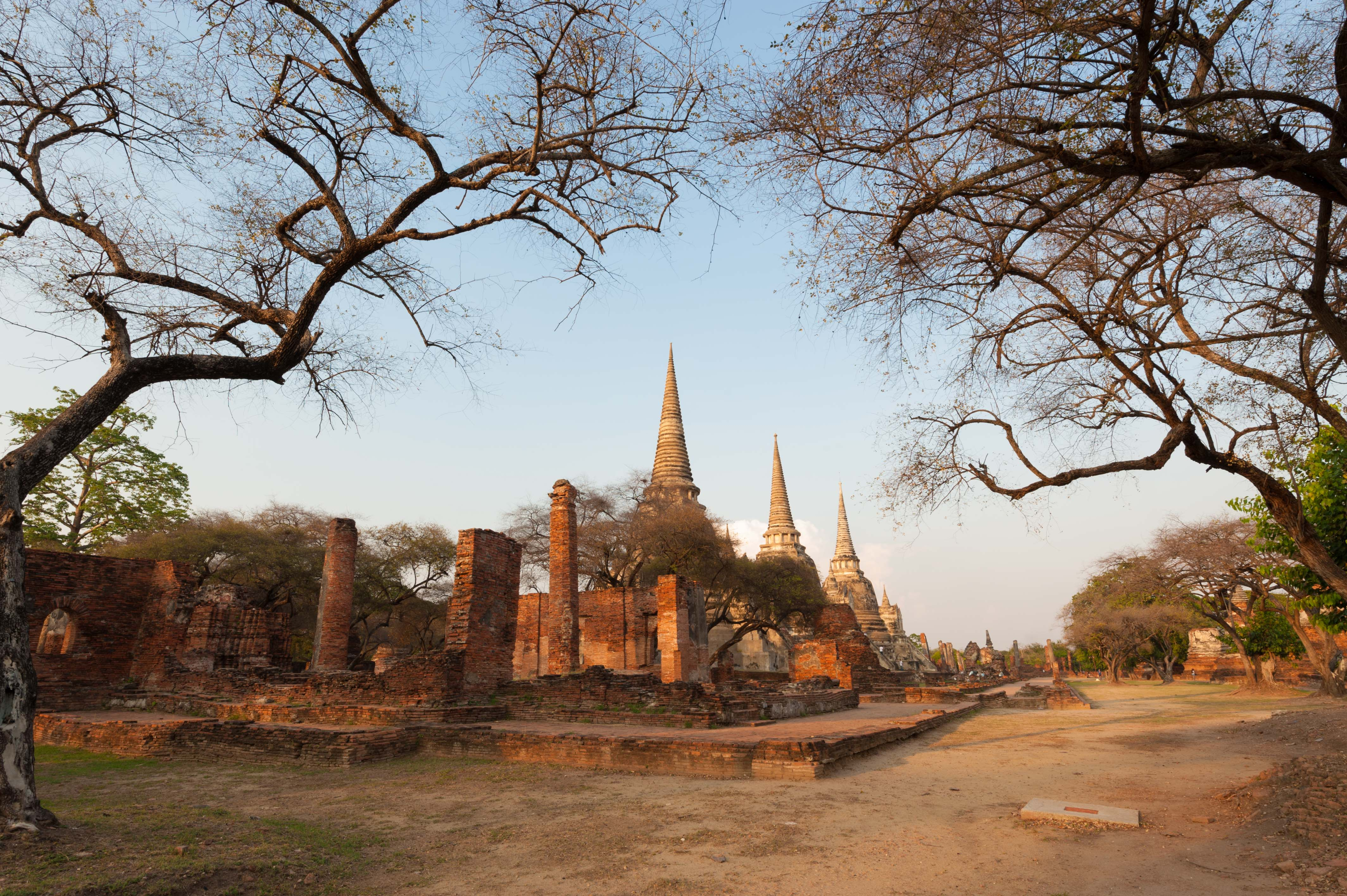 The three chedi and the other ruins of Wat Phra Si Sanphet, Phra Nakhon Si Ayutthaya District, Phra Nakhon Si Ayutthaya Province